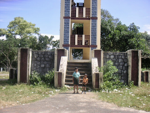 Trivandrum, India.